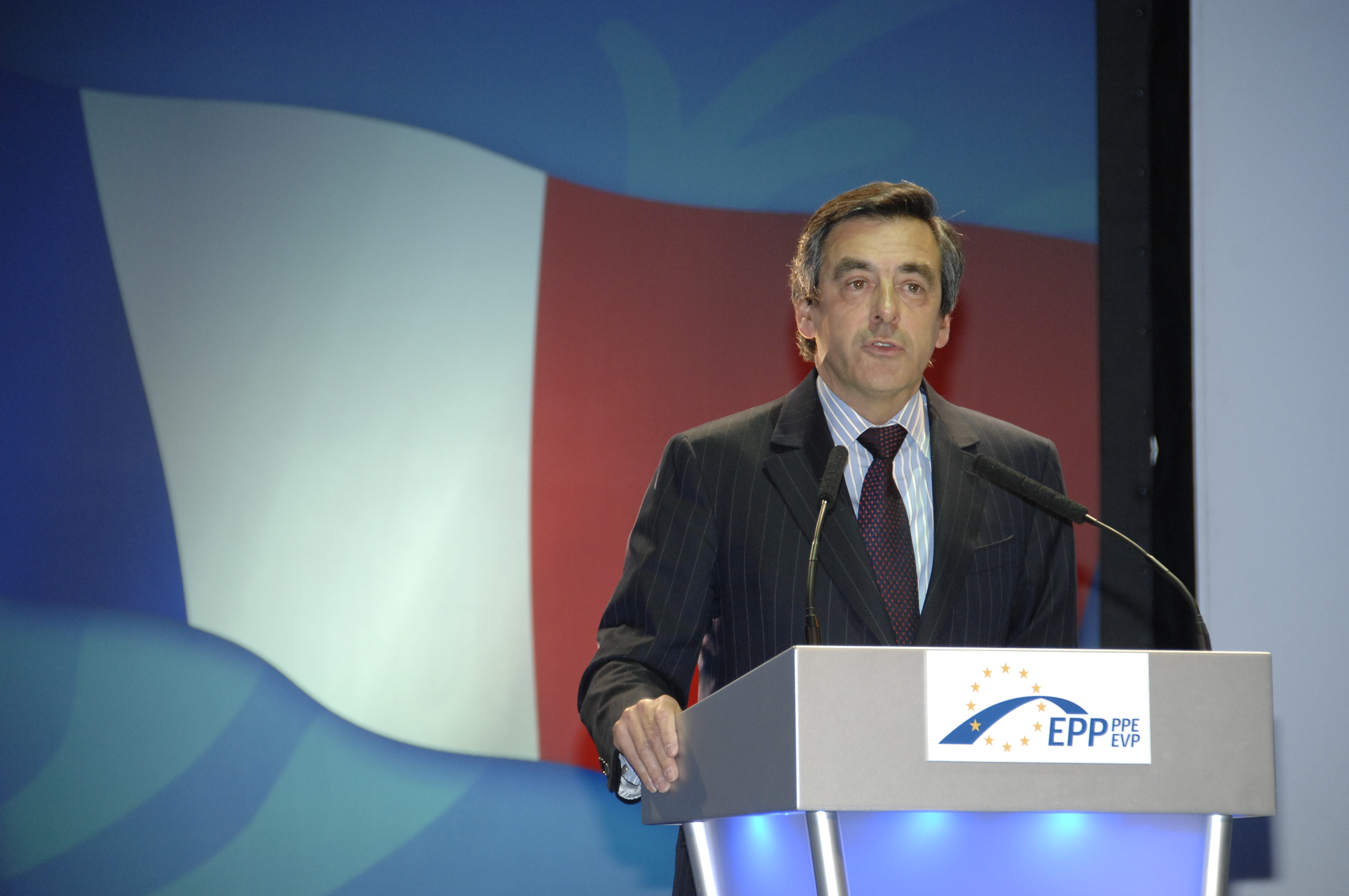 EPP Congress Warsaw